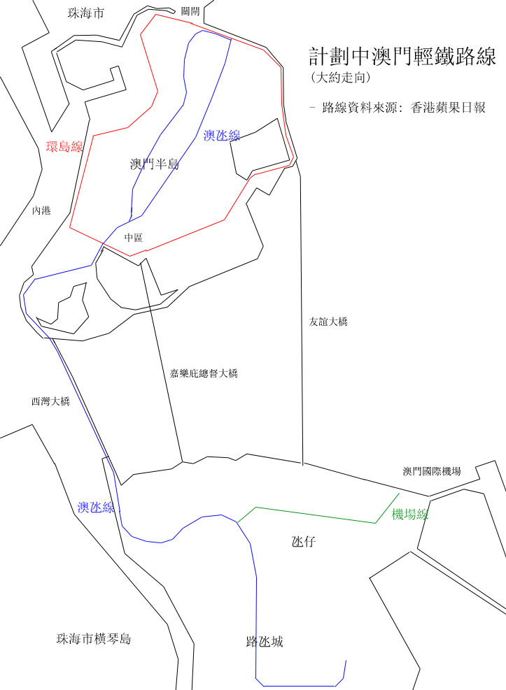 Macau Light Transit System under planning